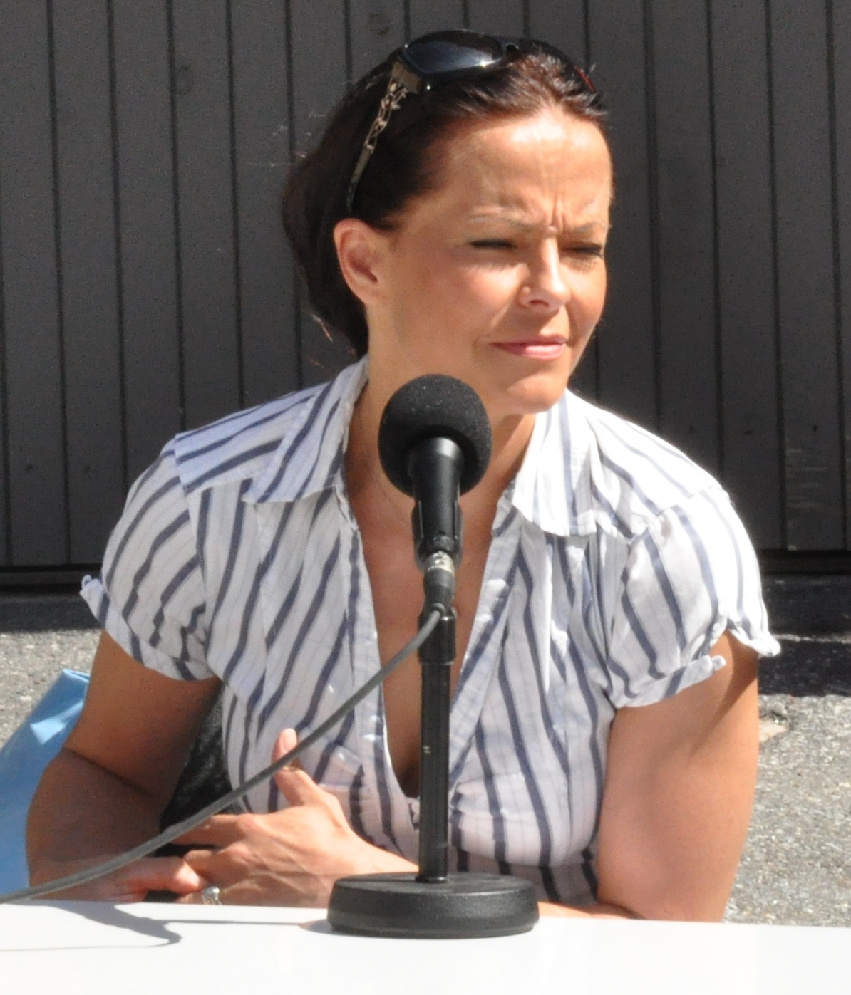 Finnish actor Maria Kuusiluoma at the SuomiAreena 2009 event in Pori, Finland.